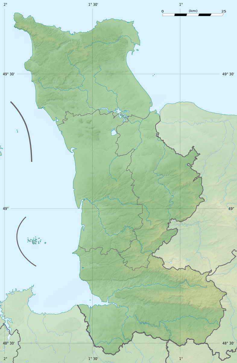 Blank physical map of the department of Manche, France, for geo-location purpose.